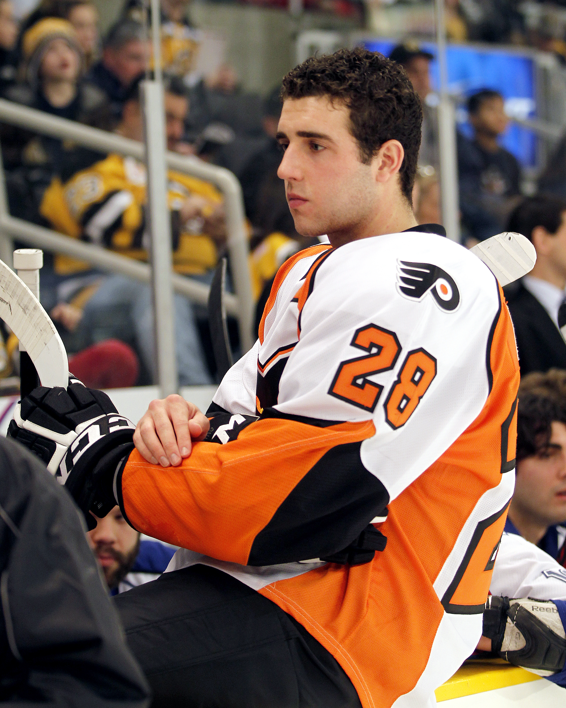 Manning2 American Hockey League (AHL). 2013 All-Star Skills Competition. Taken on January 27, 2013.